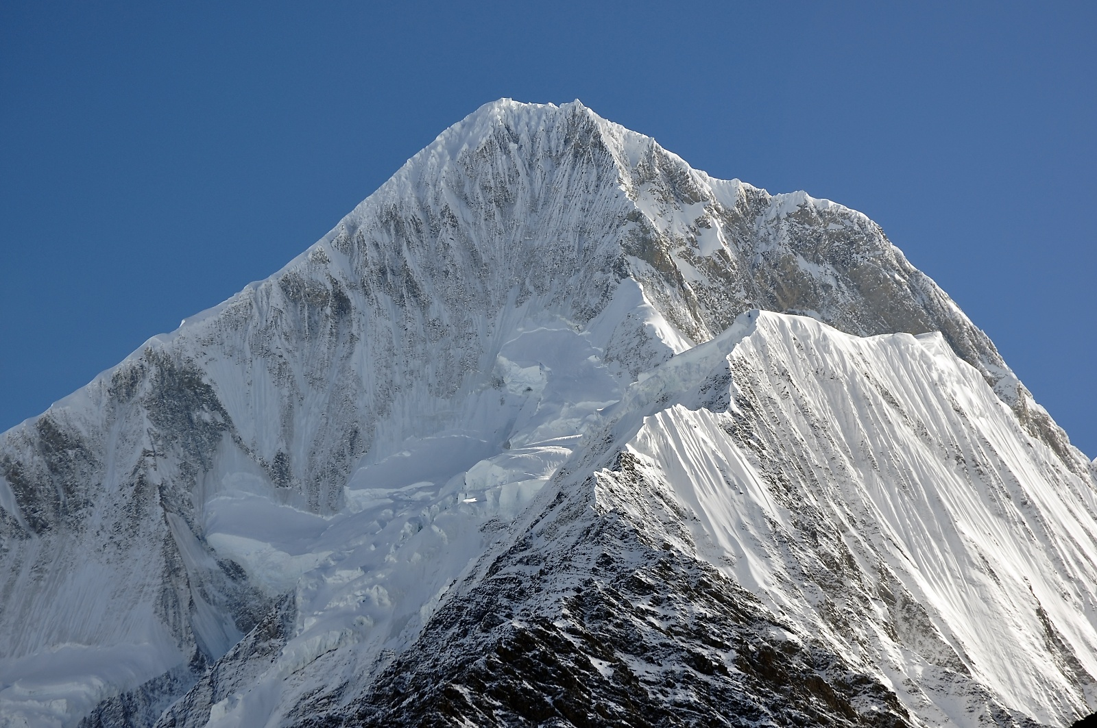 Minya Konka Summit Range from west